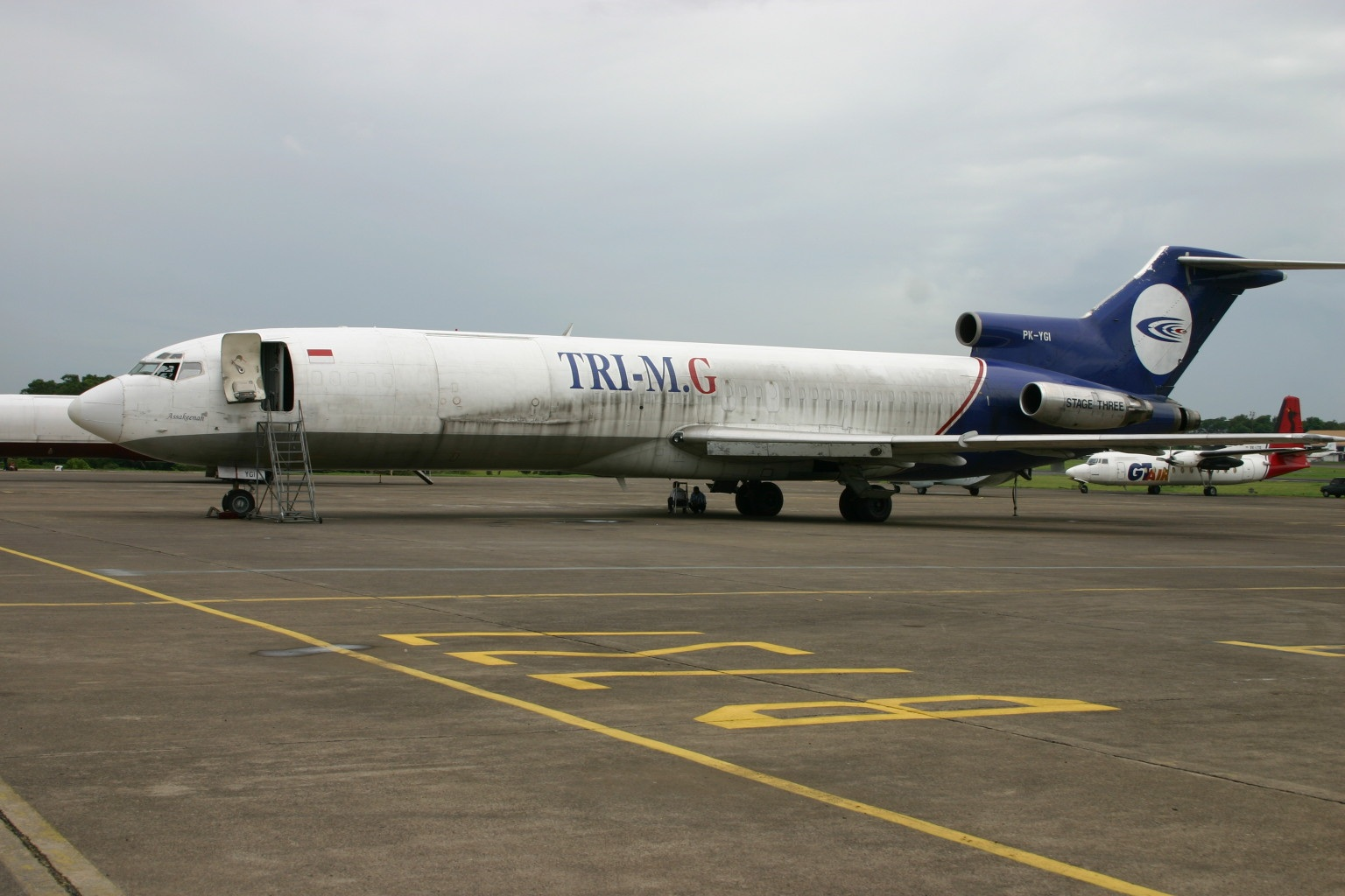 At Jakarta Halim